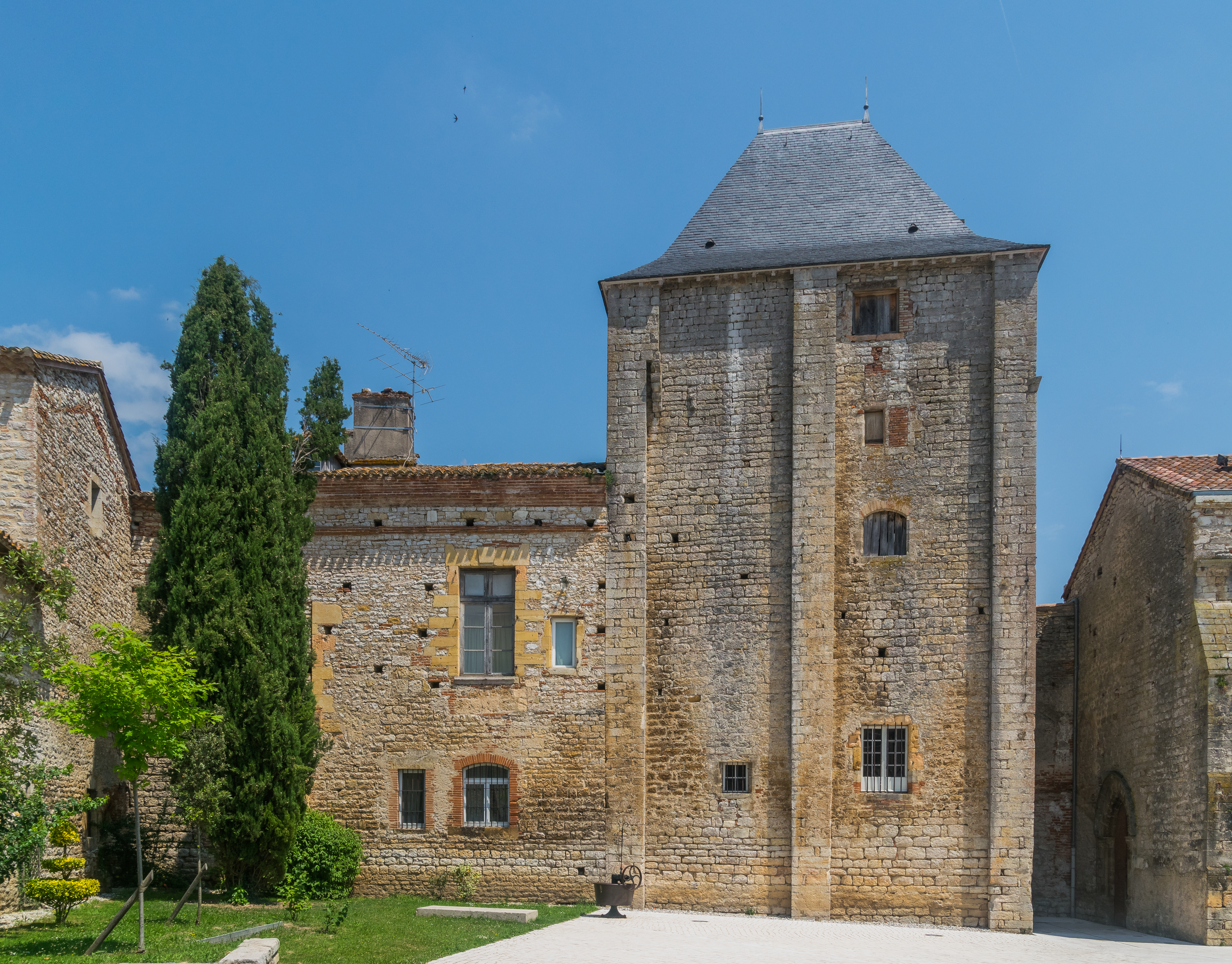 Castle of Montricoux, Tarn-et-Garonne, France .